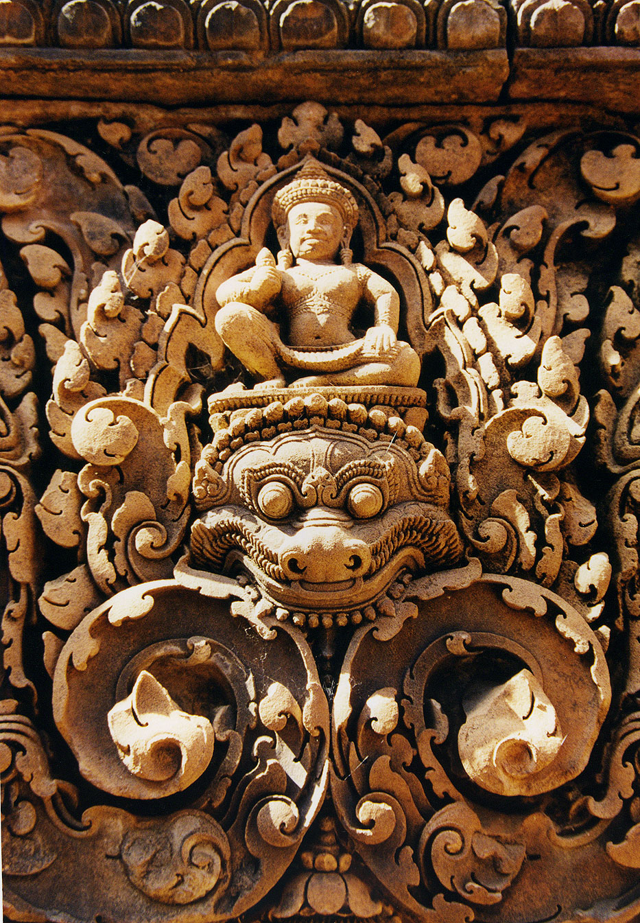 Depiction of a guardian spirit (Yaksa) atop a mythological creature (named Kala or Rahu) at the Banteay Srei in Angkor (Cambodia)